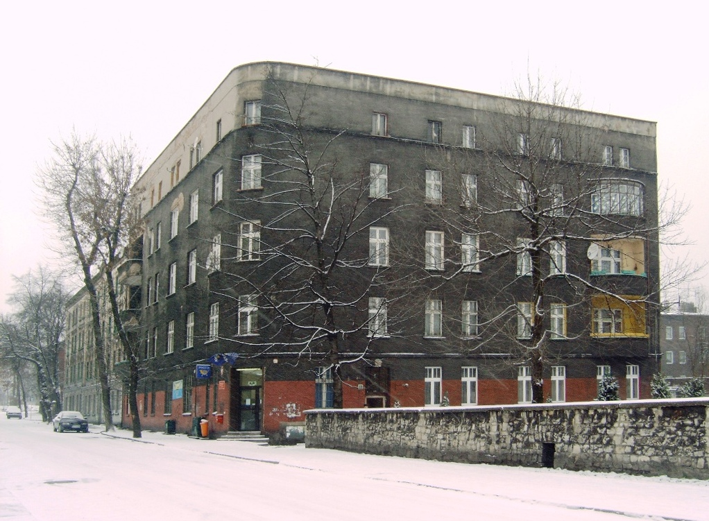 Post in Dąbrówka Mała